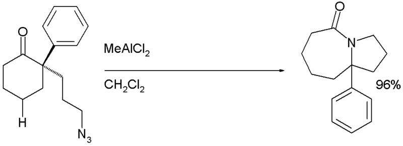 Schmidt reaction Application